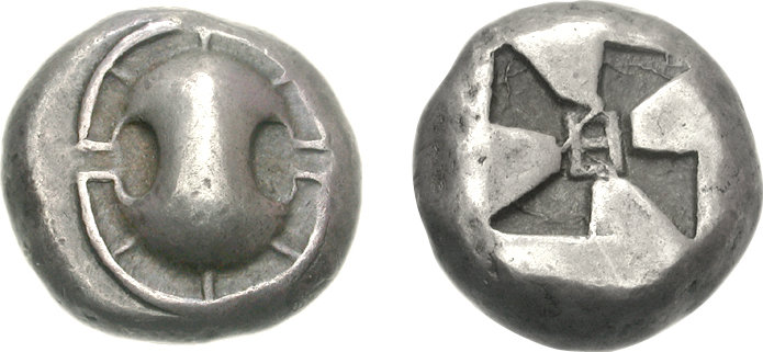 Haliartos, 475-450 BC. Silver stater (18mm, 12.18 g). Boeotian shield, rim divided into eight sections / Square incuse with counterclockwise mill-sail pattern; refined H in center.